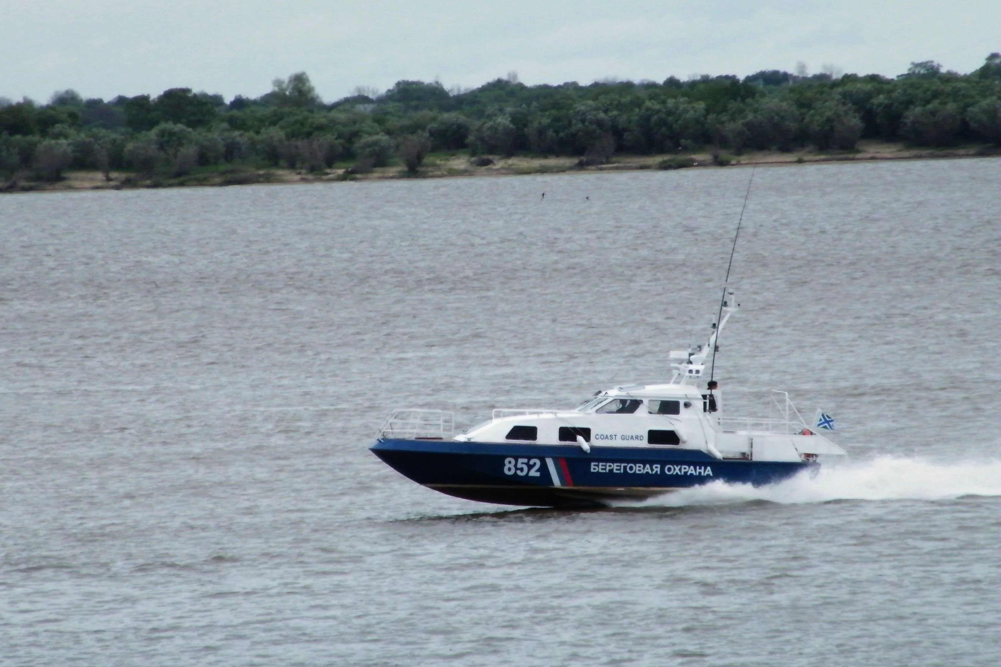 Amur Military Flotilla